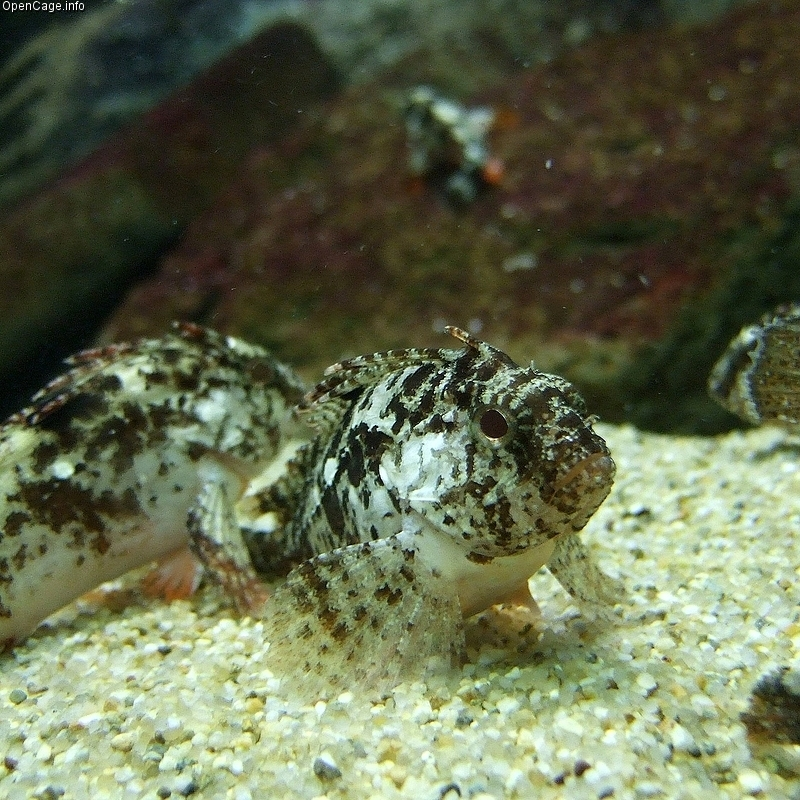 Racehorse Paracentropogon rubripinnis (Temminck & Schlegel, 1843) (Temminck and Schlegel, 1844)